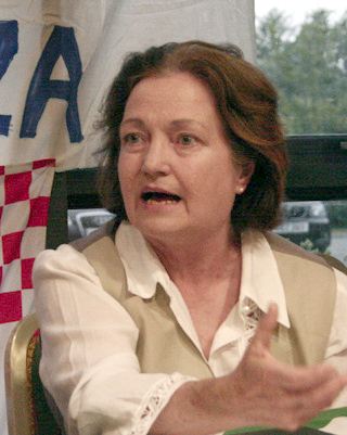 Mairead at press conference